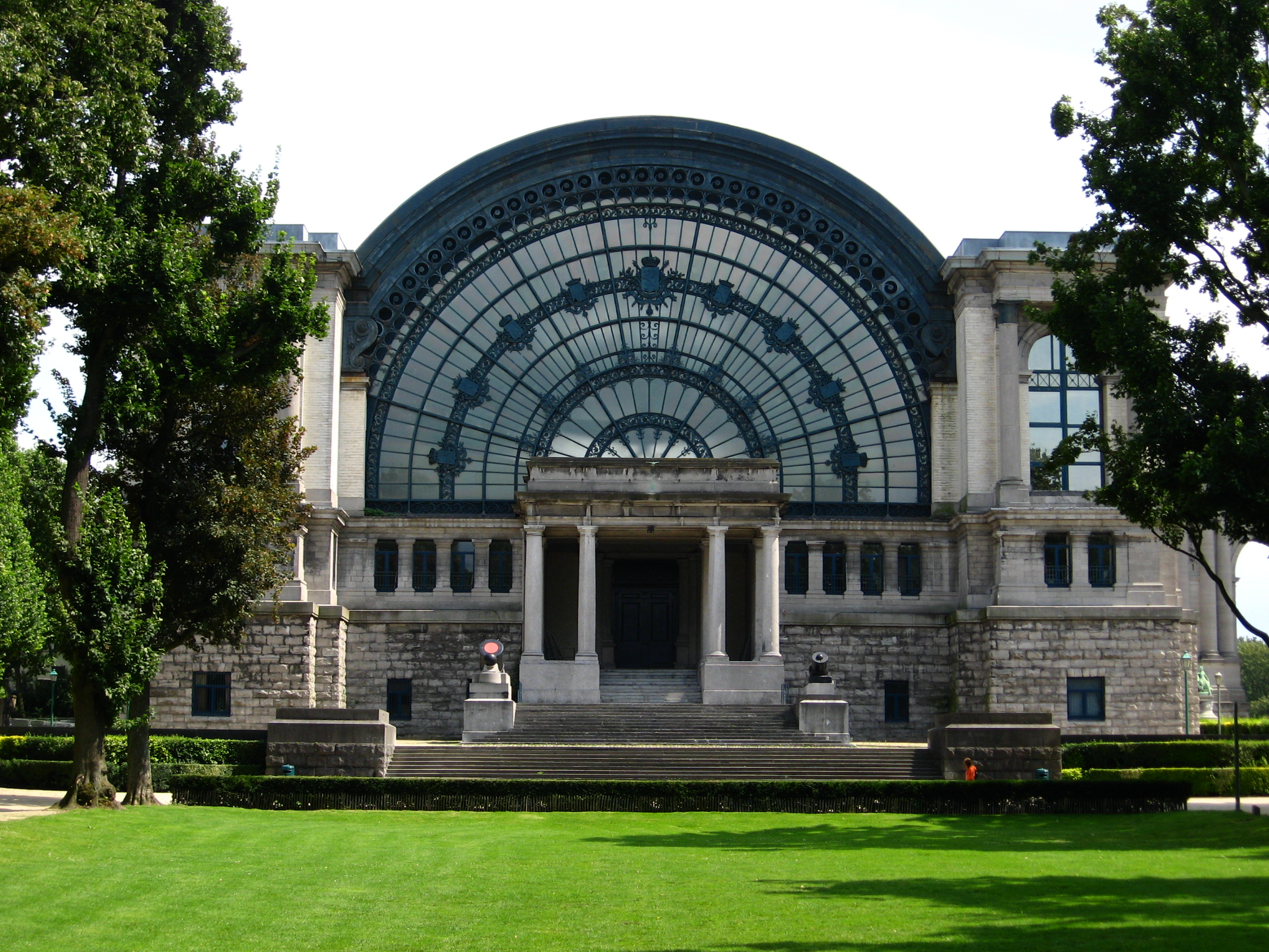 The enterance to the North Hall of the Cinquantenaire complex in Brussels. Currently an Aerospace Museum.